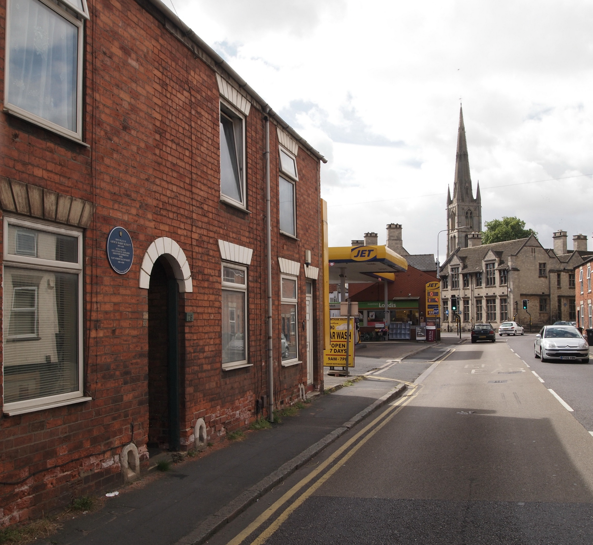 A view along a short section of the A607 - the Belton-Grantham road - as it approaches the town centre. A wall plaque on the terraced house on the left (No. 30) marks the humble birthplace of Arthur Harry Blissett (1875-1955) . He was a former Royal Marine and fellow Antarctic explorer with Capt Robert Falcon Scott, the famous polar explorer. Ahead, the biscuit-coloured building occupying the corner site is part of locally well-known "The King's School".